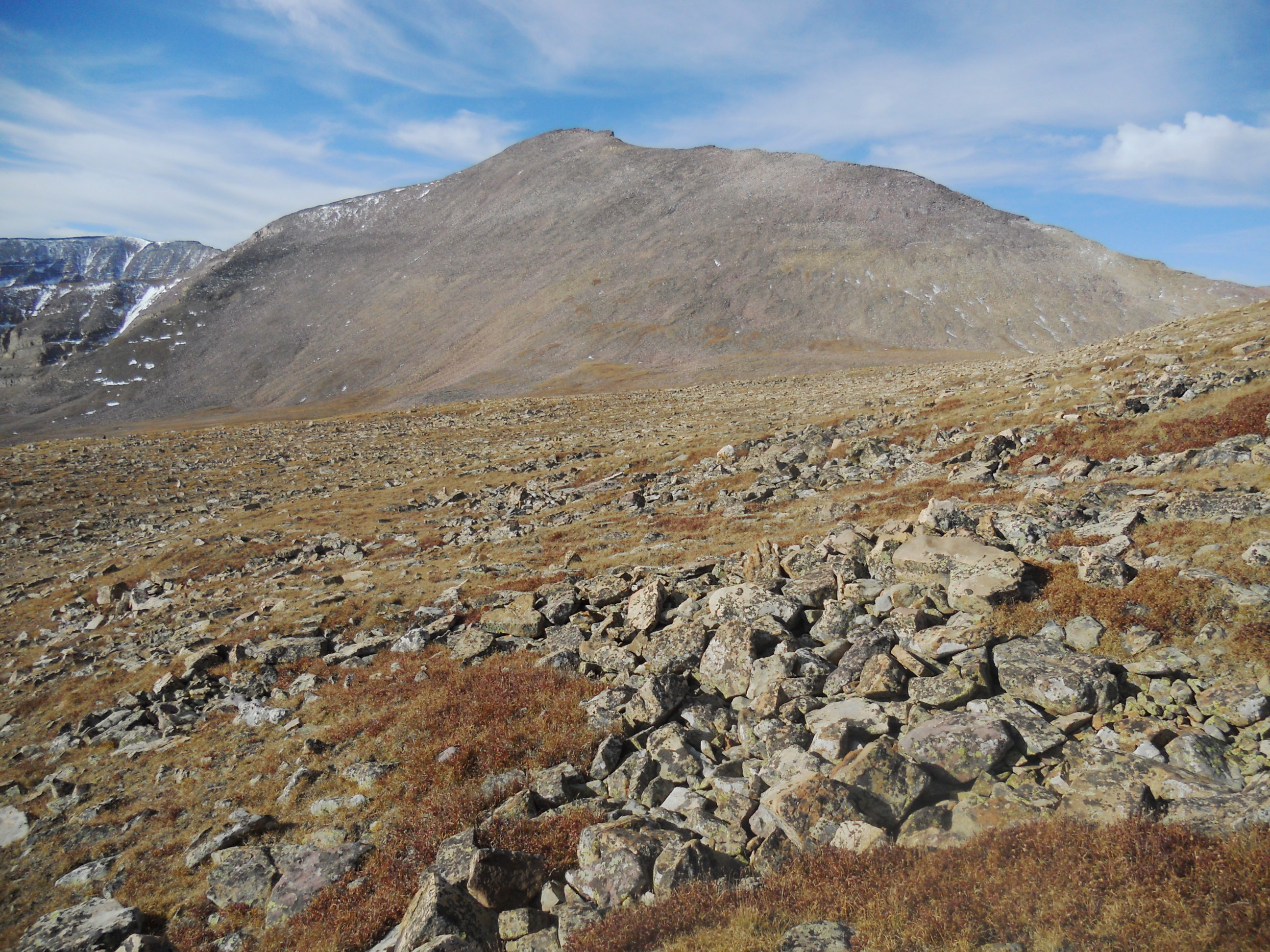 Kings Peak as viewed from the northeast. At an elevation of 13,528 ft (4123 m), Kings Peak is the highest summit in Utah. It is located in the High Uintas Wilderness within Ashley National Forest.